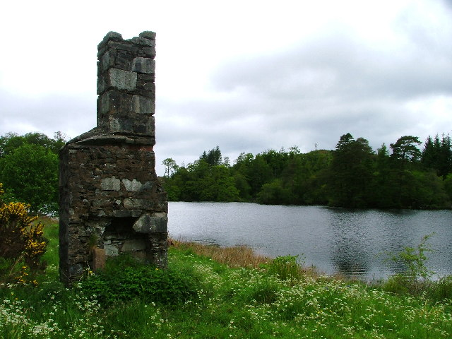 Loch a Bharain. Adjacent to and feeding into the Crinan Canal